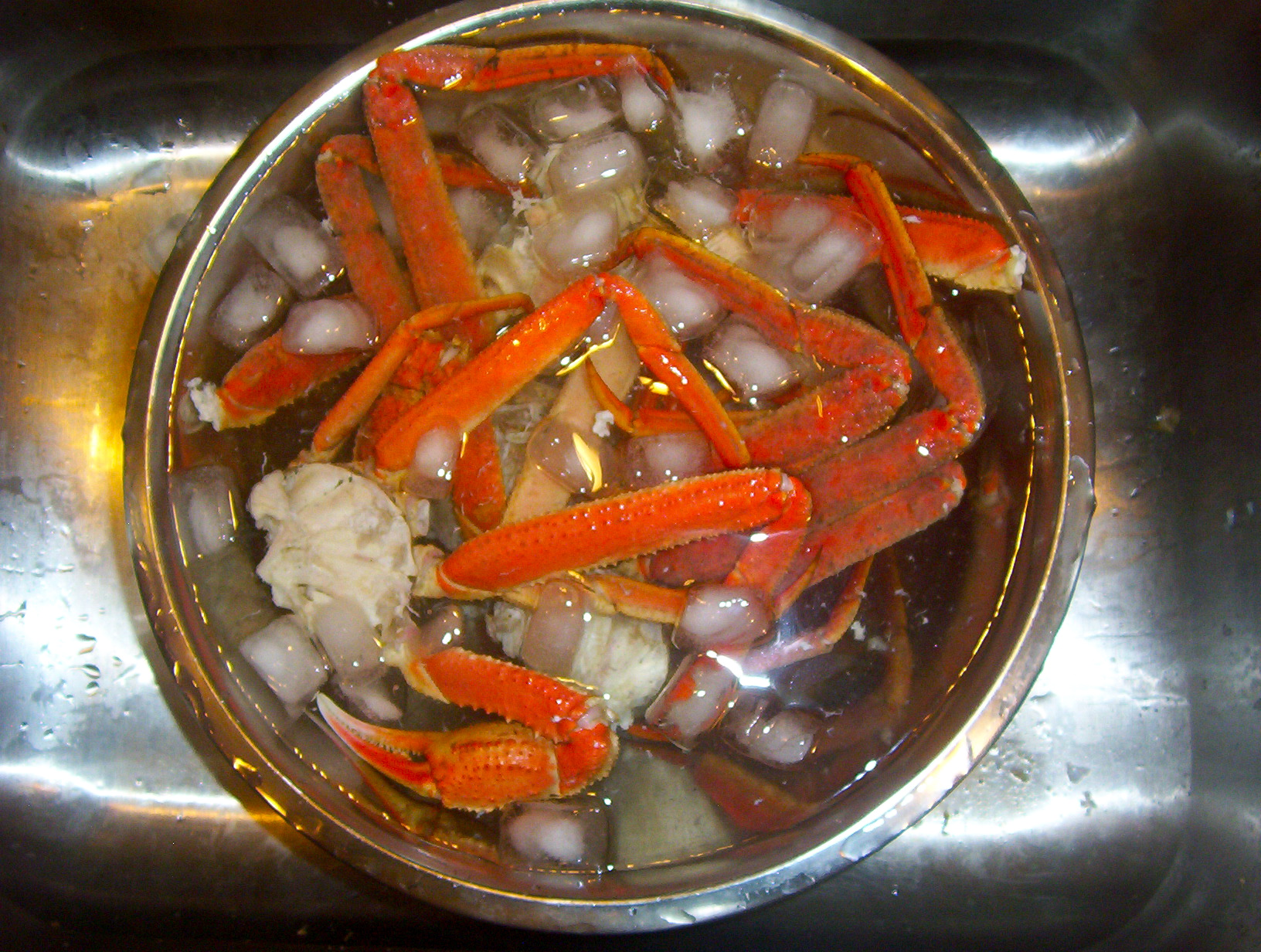 freshly cooked Tanner crab legs and claws chilling in ice water